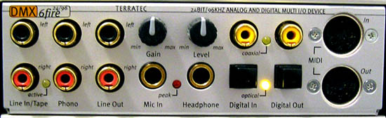 Terratec DMX 6fire front modul